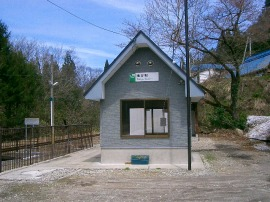 Takiya Station, Yanaizu, Kawanuma District, Fukushima, Japan